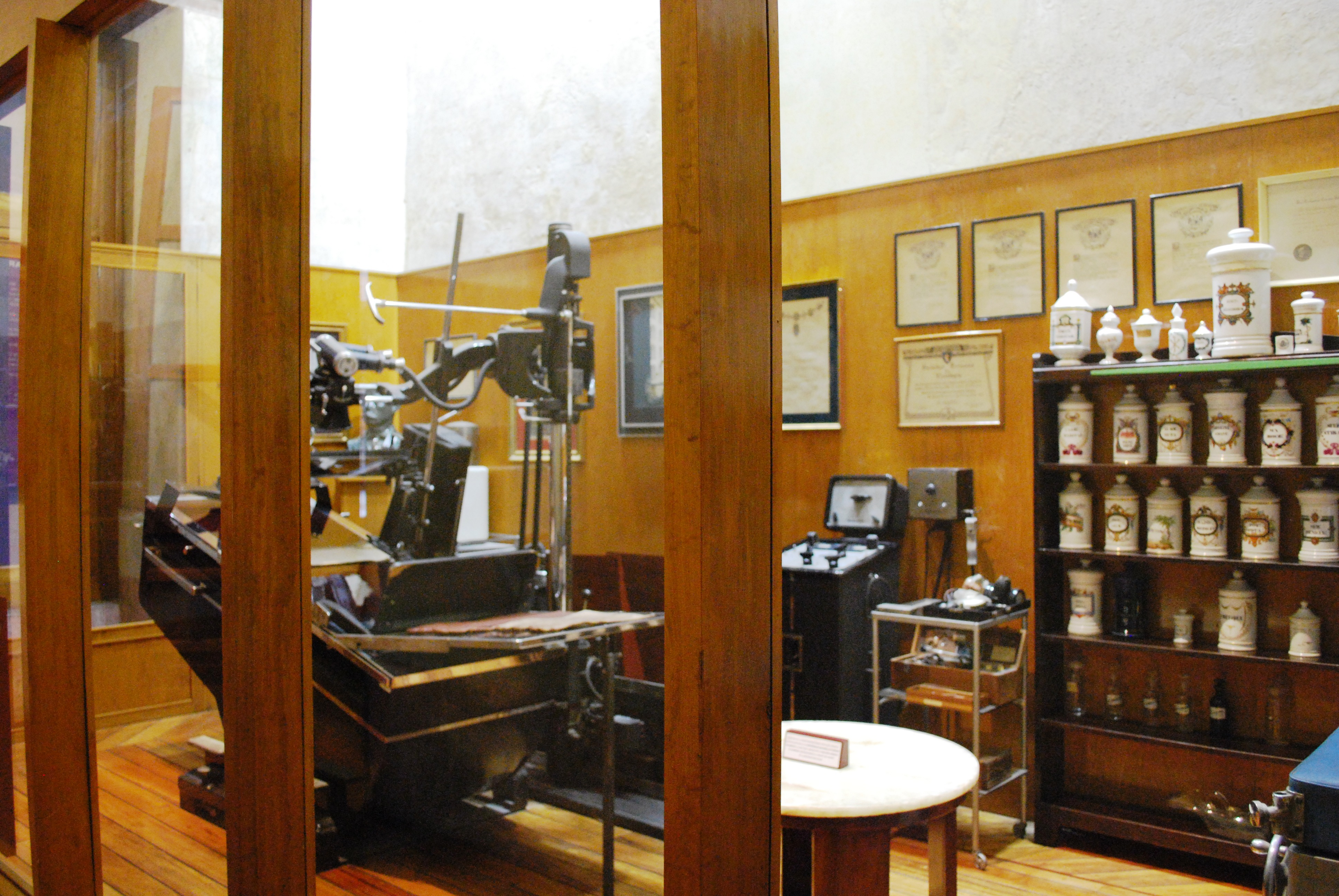 The Dr Donato G Alarcon room, a sample doctor's office of the 1940's with Westinghouse 1940 Xray machine, located in the Palace of Inquisition - Museum of Mexican Medicine in the historic center of Mexico City